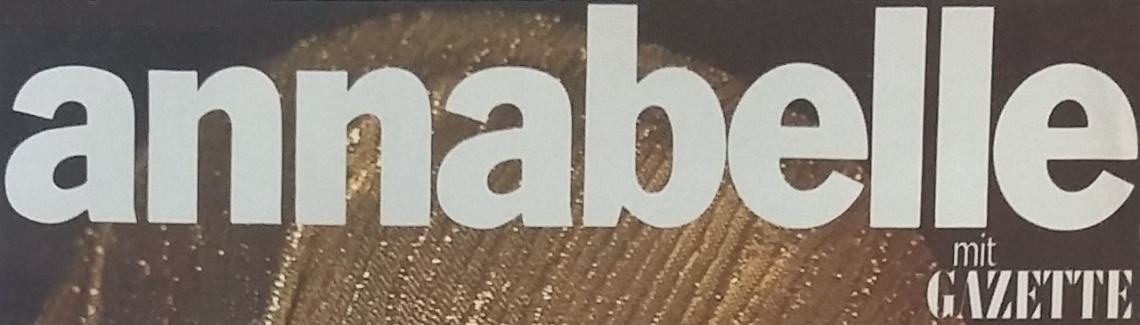 former Logo of the Swiss magazine Annabelle